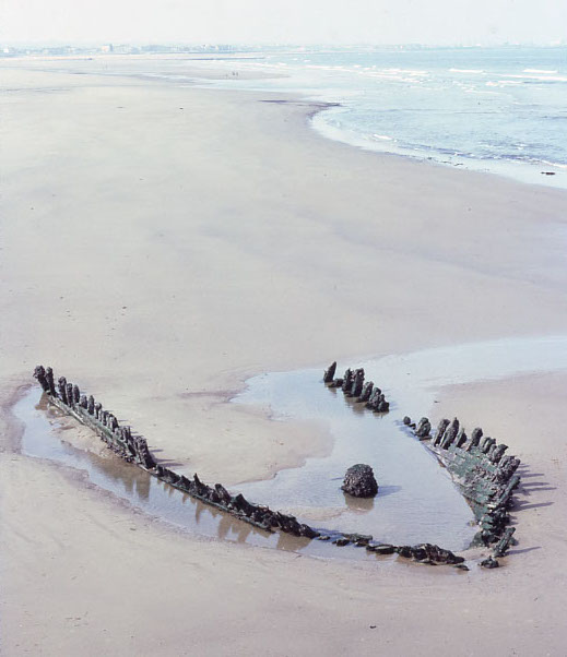 The shipwreck of the Danish wooden schooner Doris at the southern end of Seaton Sands adjacent to North Gare at the mouth of the river Tees in County Durham, UK. In 1930 the ship was floundering near the Longscar Rocks off Hartlepool dragging its anchors in a storm. The crew were taken off by lifeboat and the stern part of the schooner washed up a few miles south and became fast in the sands. The object in the middle of the wreck is a motor. A further shipwreck and the town of Seaton Carew can be seen in the distance. Today the wreck is almost completely buried by sand and only the motor shows above the surface.